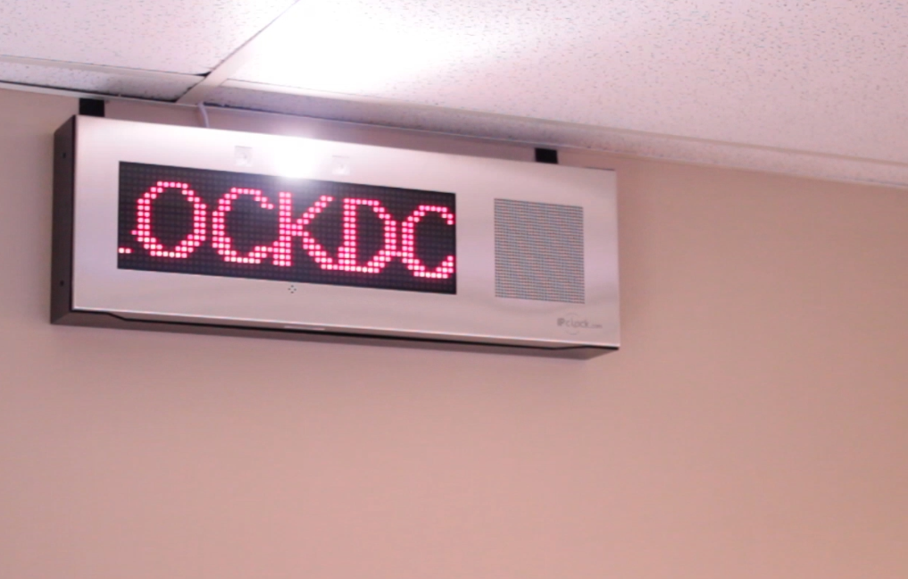 An electronic L.E.D. scrolling sign, mounted just below the ceiling line of a wall, in an office environment, shown as a component that comprises the MessageNet systems Connections product. The message is an example of a lock-down alert, with flashing lights and text-to-speech audio instructions. Image freely donated by MessageNet systems, to wikimedia, with all rights released.